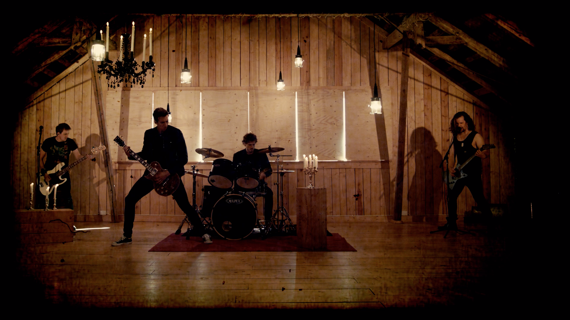 Tonic Breed performing Mummy Dust